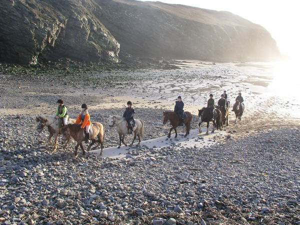 Horses on Nolton Haven Beach 2.